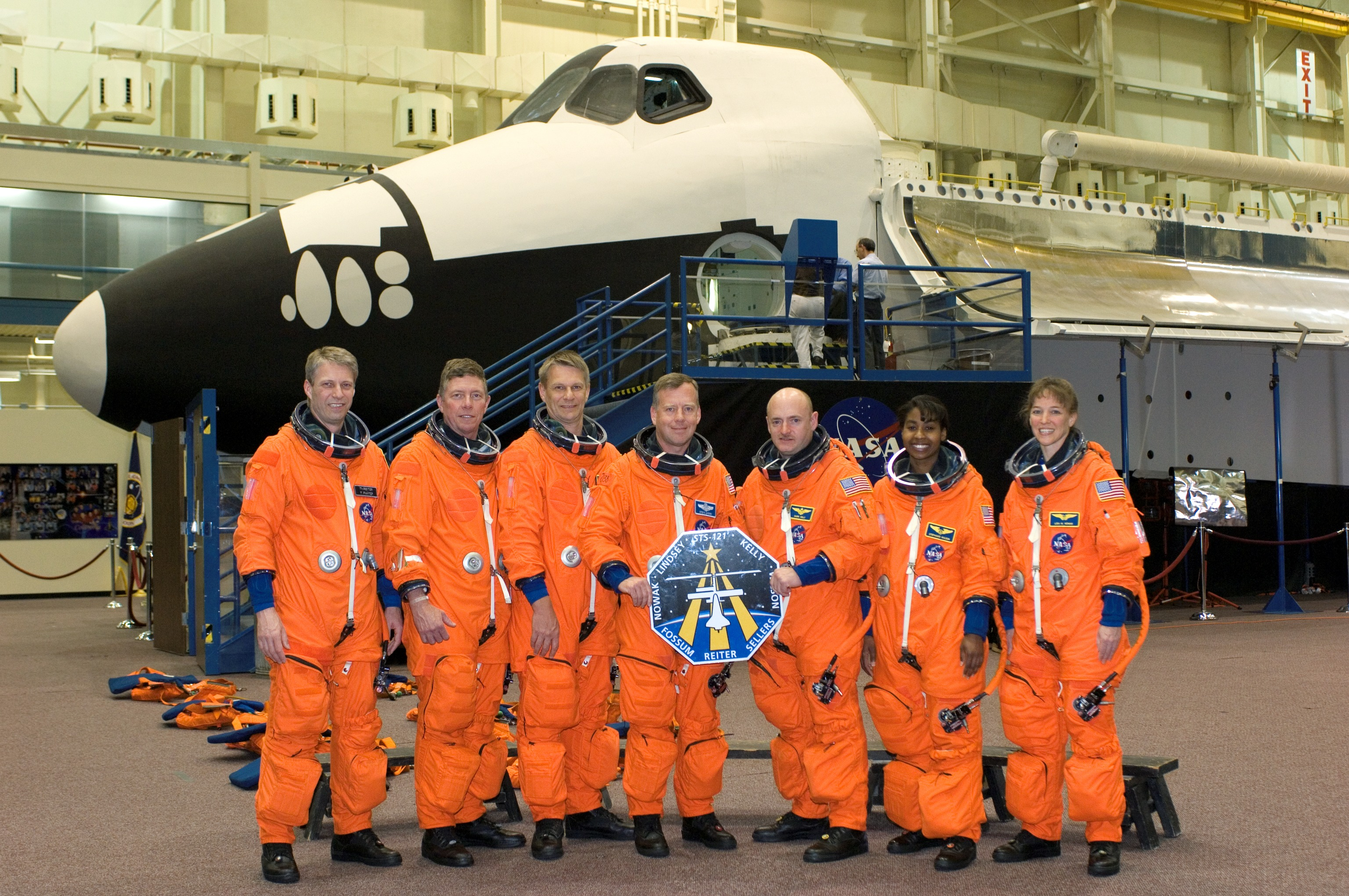 The crewmembers assigned to STS-121 take a break from training for a group shot in the Johnson Space Center's Space Vehicle Mockup Facility. From the left are astronauts Thomas Reiter of the European Space Agency, Michael E. Fossum, Piers J. Sellers, Steven W. Lindsey, Mark E. Kelly, Stephanie D. Wilson and Lisa M. Nowak. Lindsey is mission commander and Kelly is pilot, with the other five serving as mission specialists.